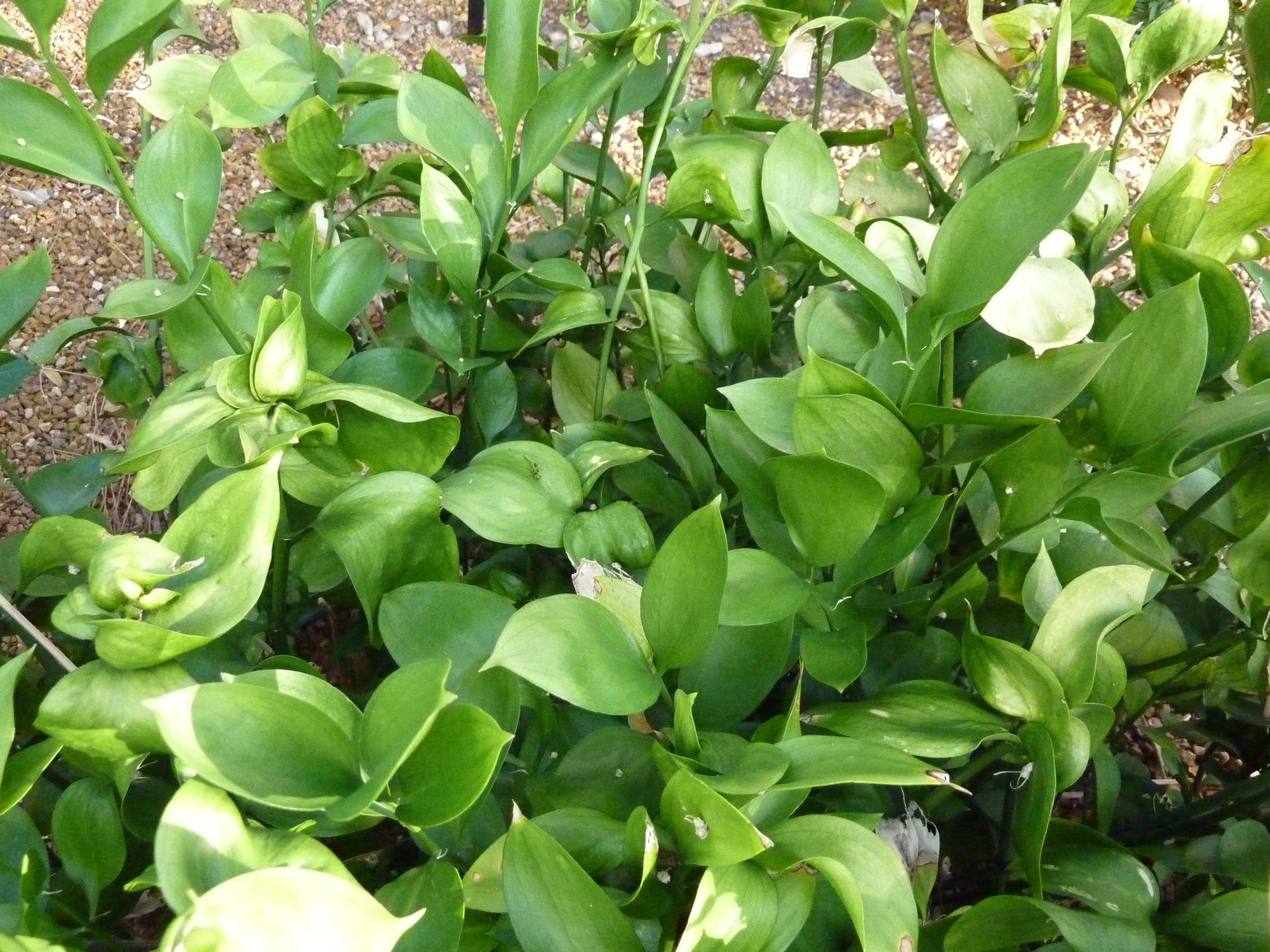 Ruscus hypophyllum growing in the Temperate House of the Missouri Botanical Garden. This plant is endemic from Madeira to the Caucasus.